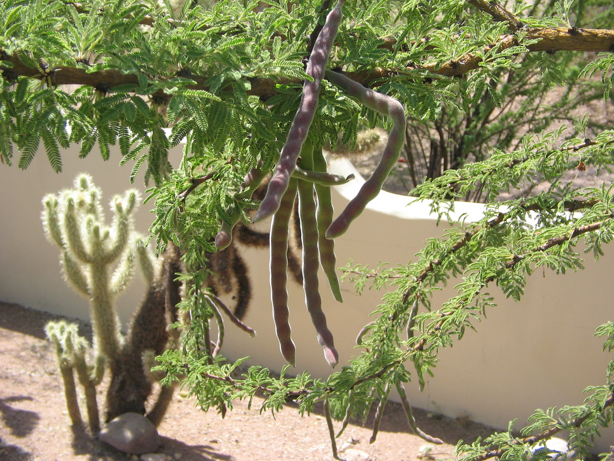 Acacia schaffneri Seed Pods